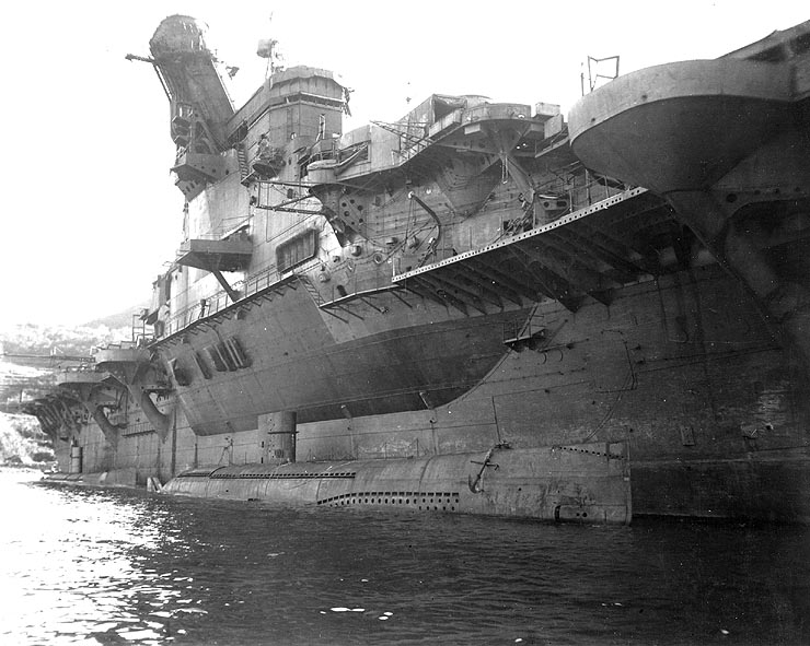 View of the starboard side of the Japanese aircraft carrier Junyō at Sasebo, Japan, on 26 September 1945. Two HA-201 class submarines are alongside.